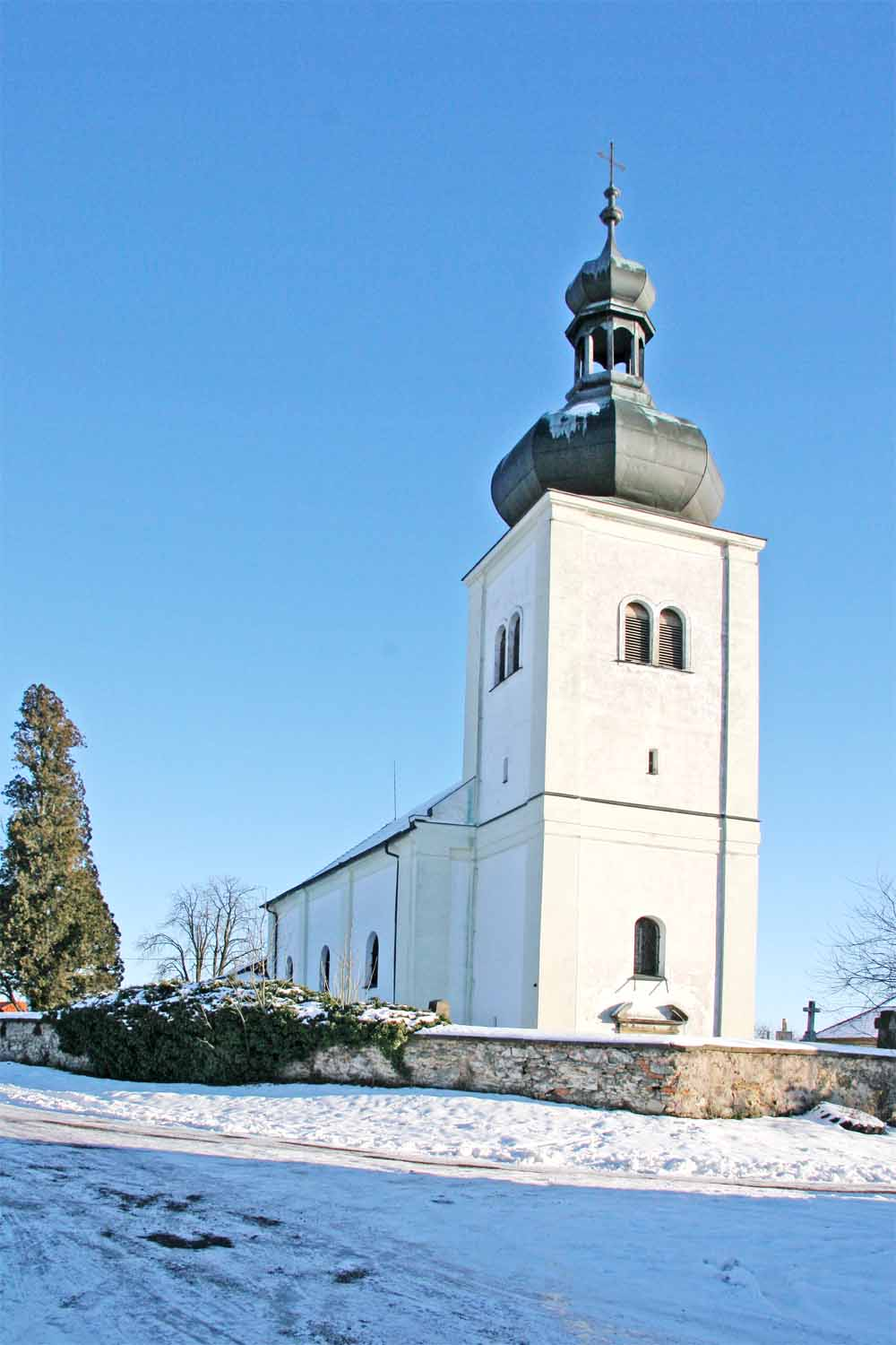 Baroque church of the Assumption in Osice, Czech Republic.